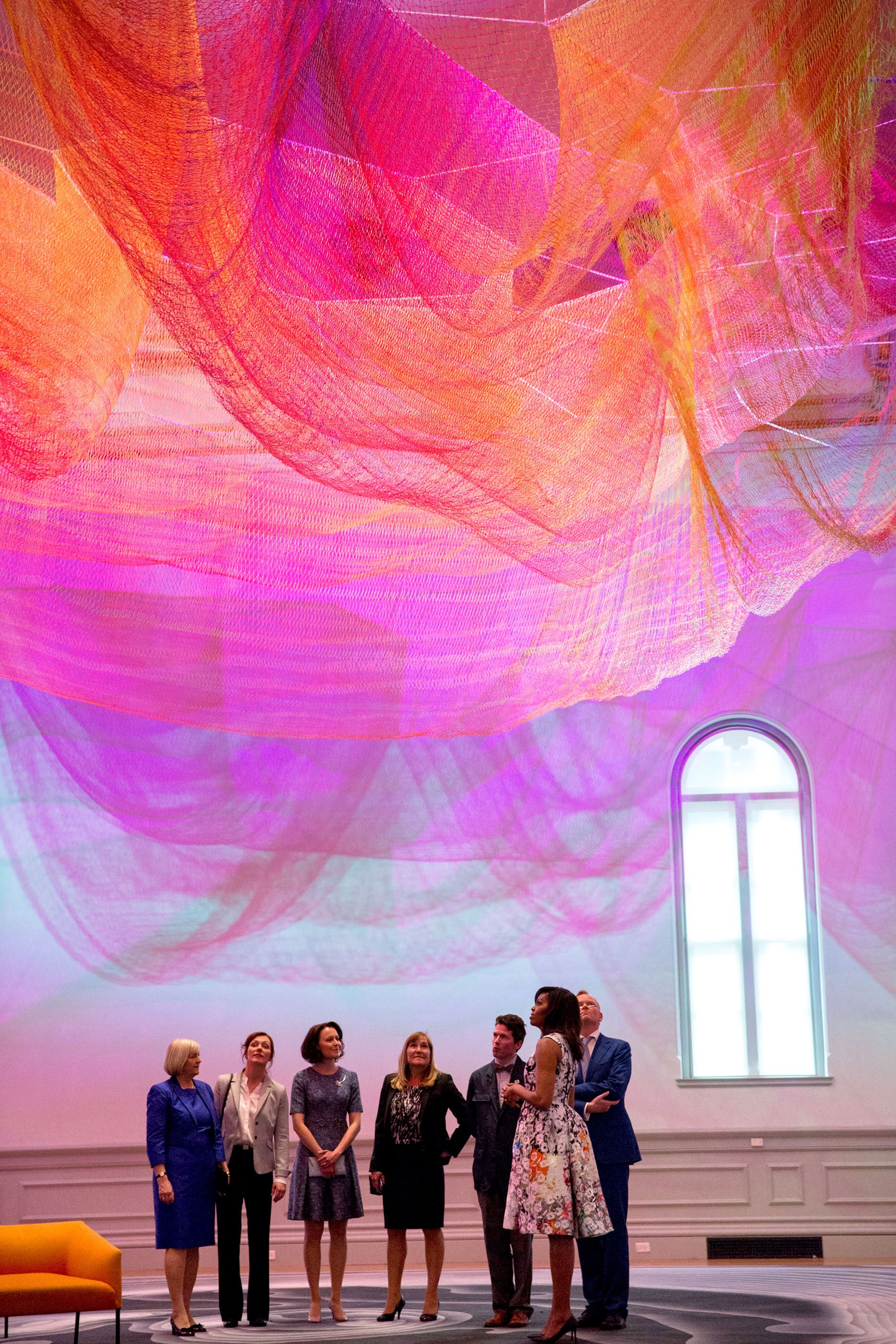 Michelle Obama admiring 1.8 Renwick